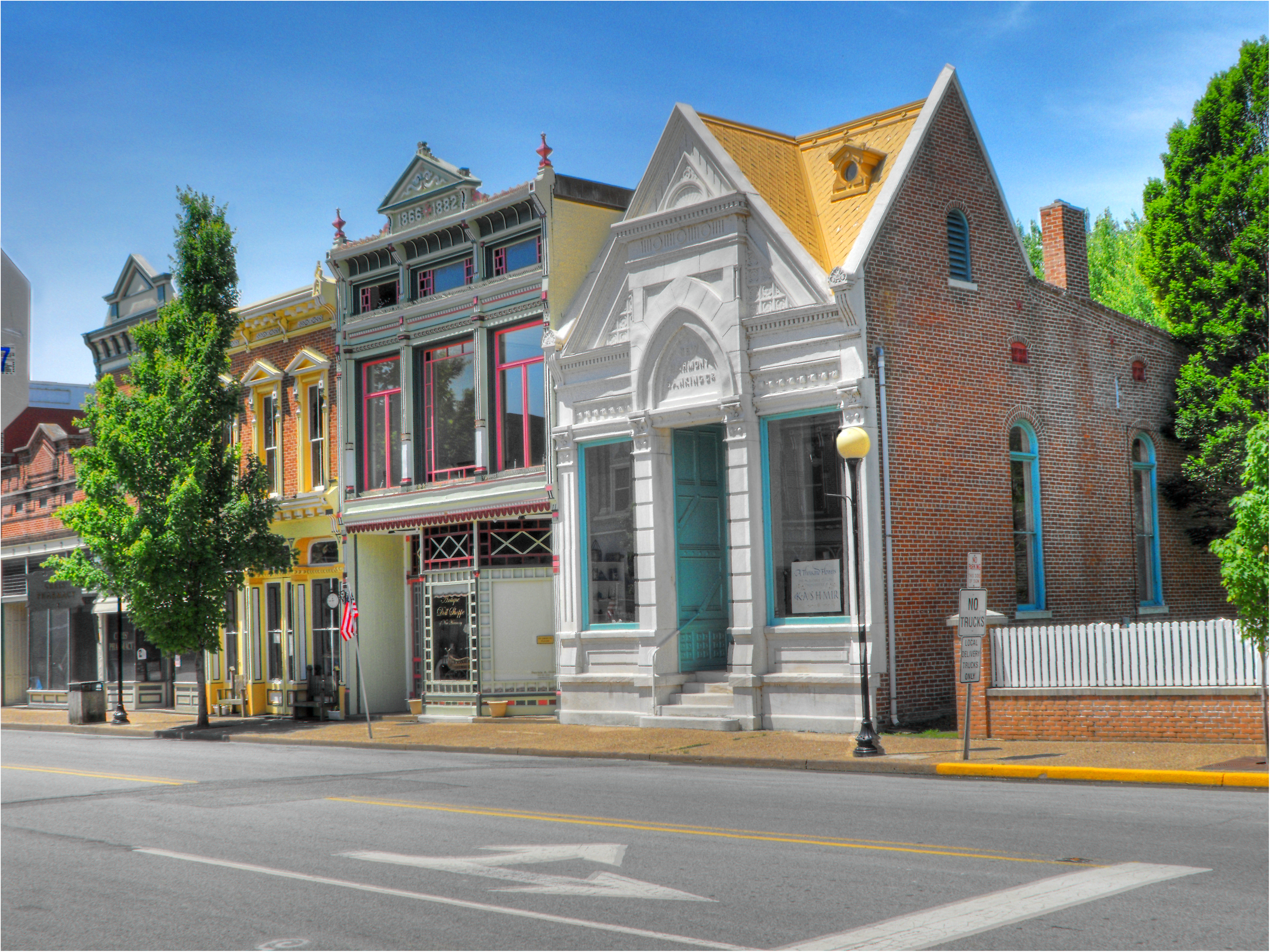 Facades in the downtown historic district of New Harmony, Indiana